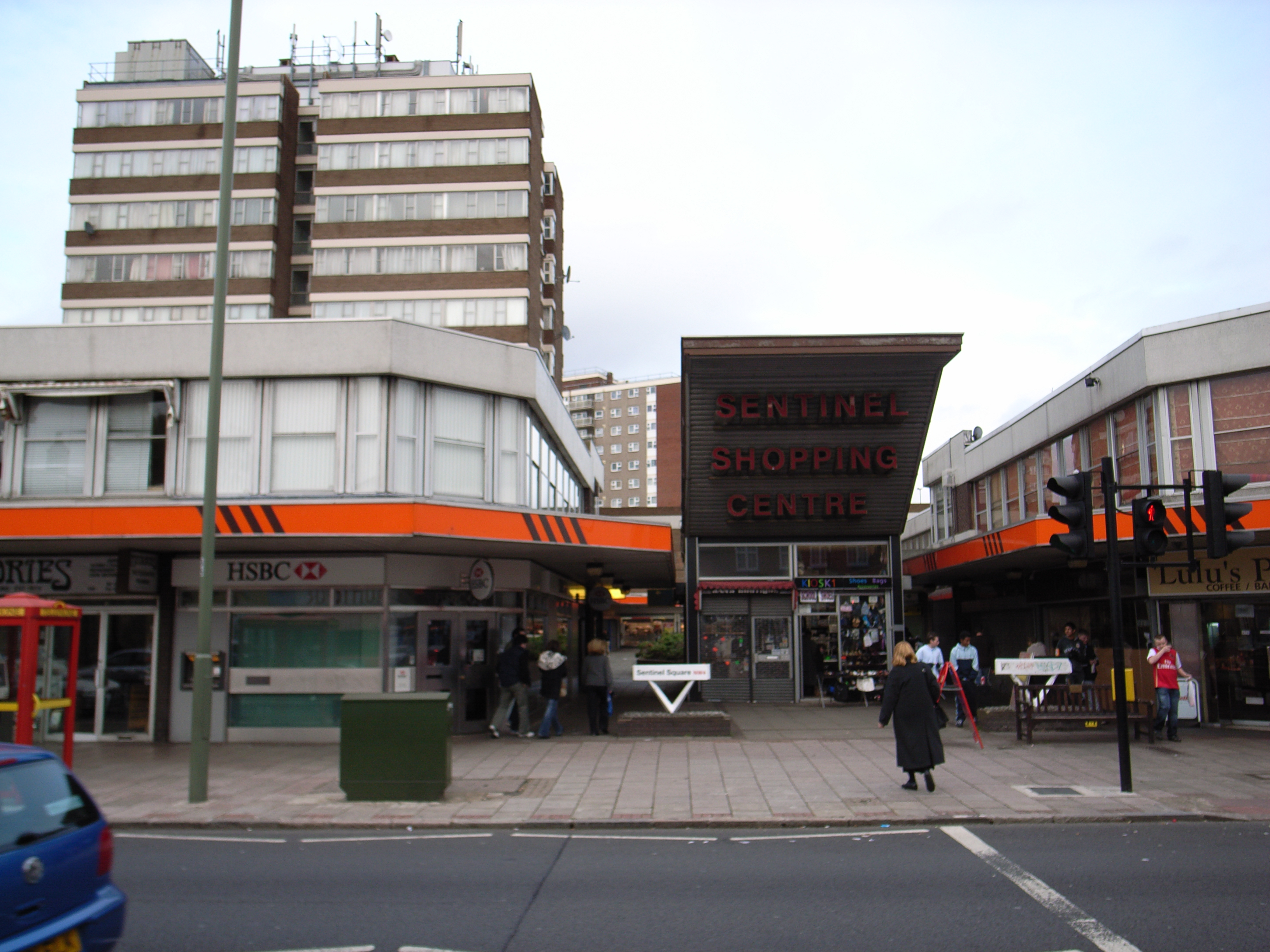 Sentinel Shopping Centre, Hendon, Sentinel Square London, Greater London NW4 2ER North London